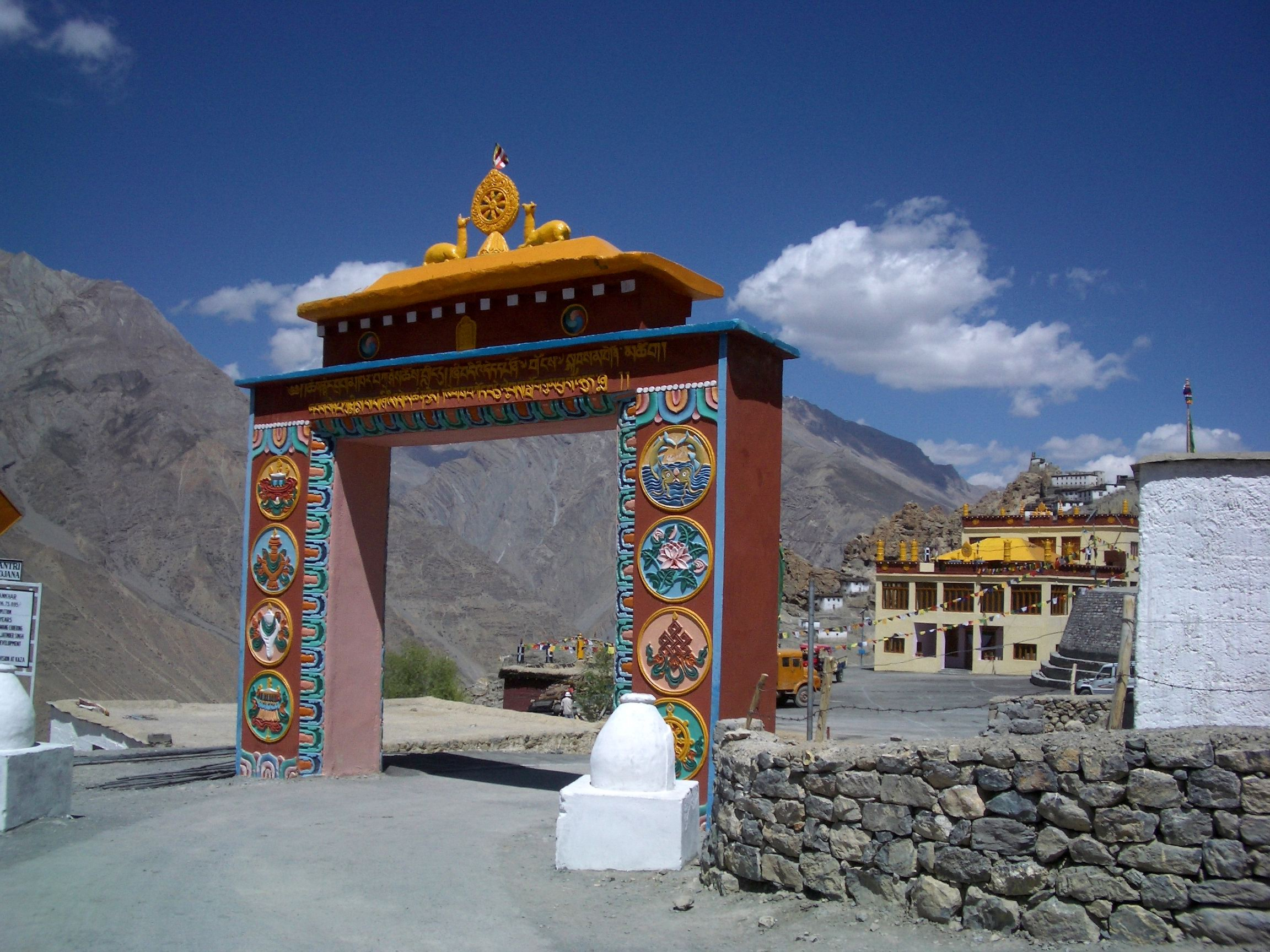 I took this photo on my trip to Spiti in 2004.